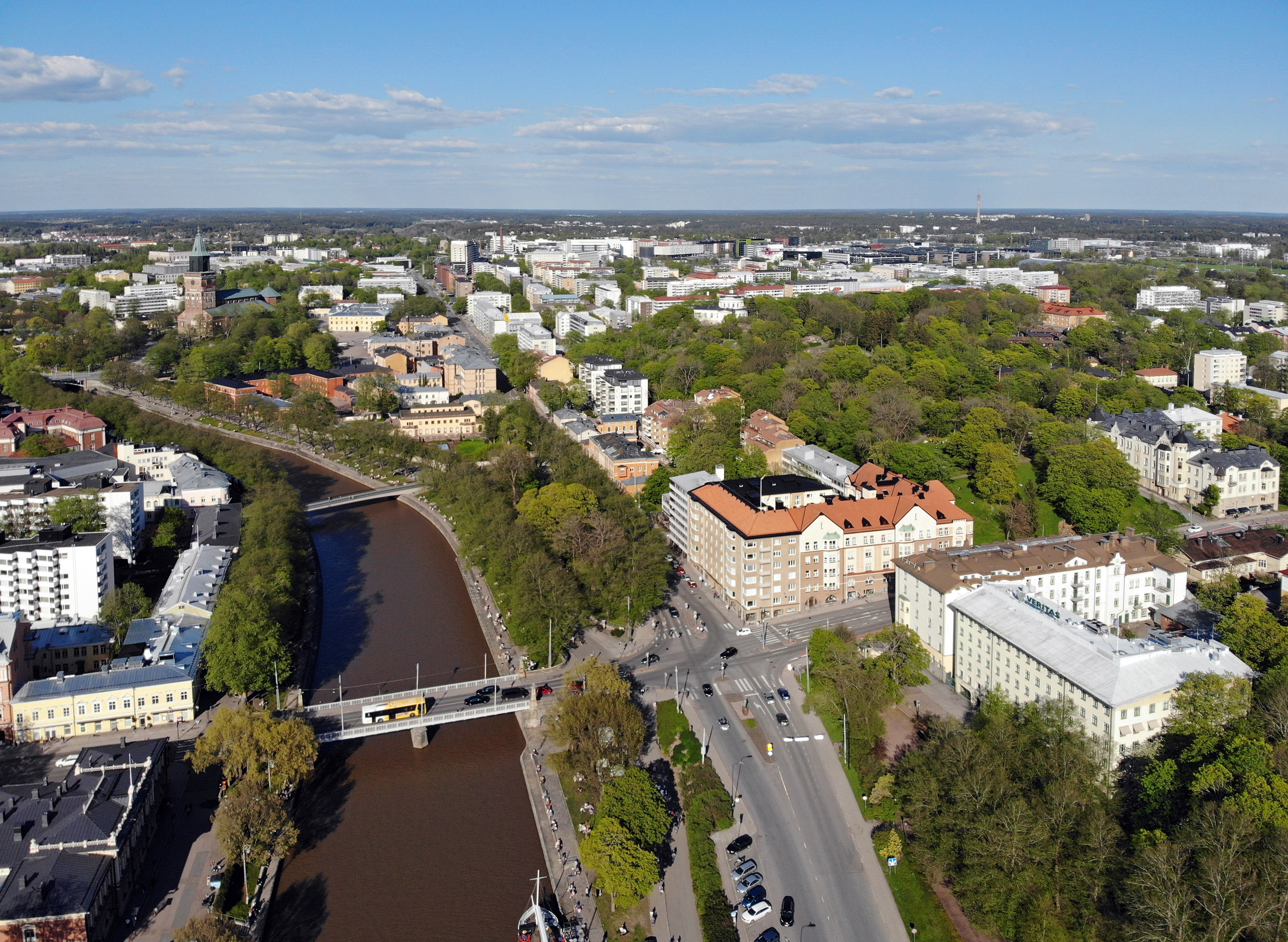 Aerial view of Turku.